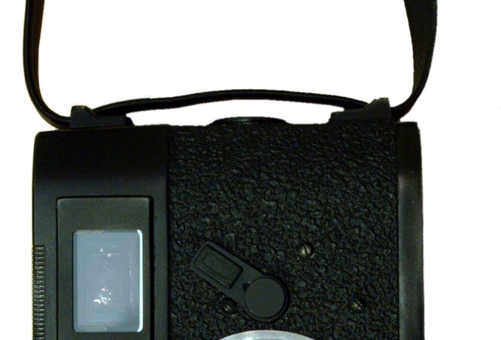 Leica M5 2-Lug Detail